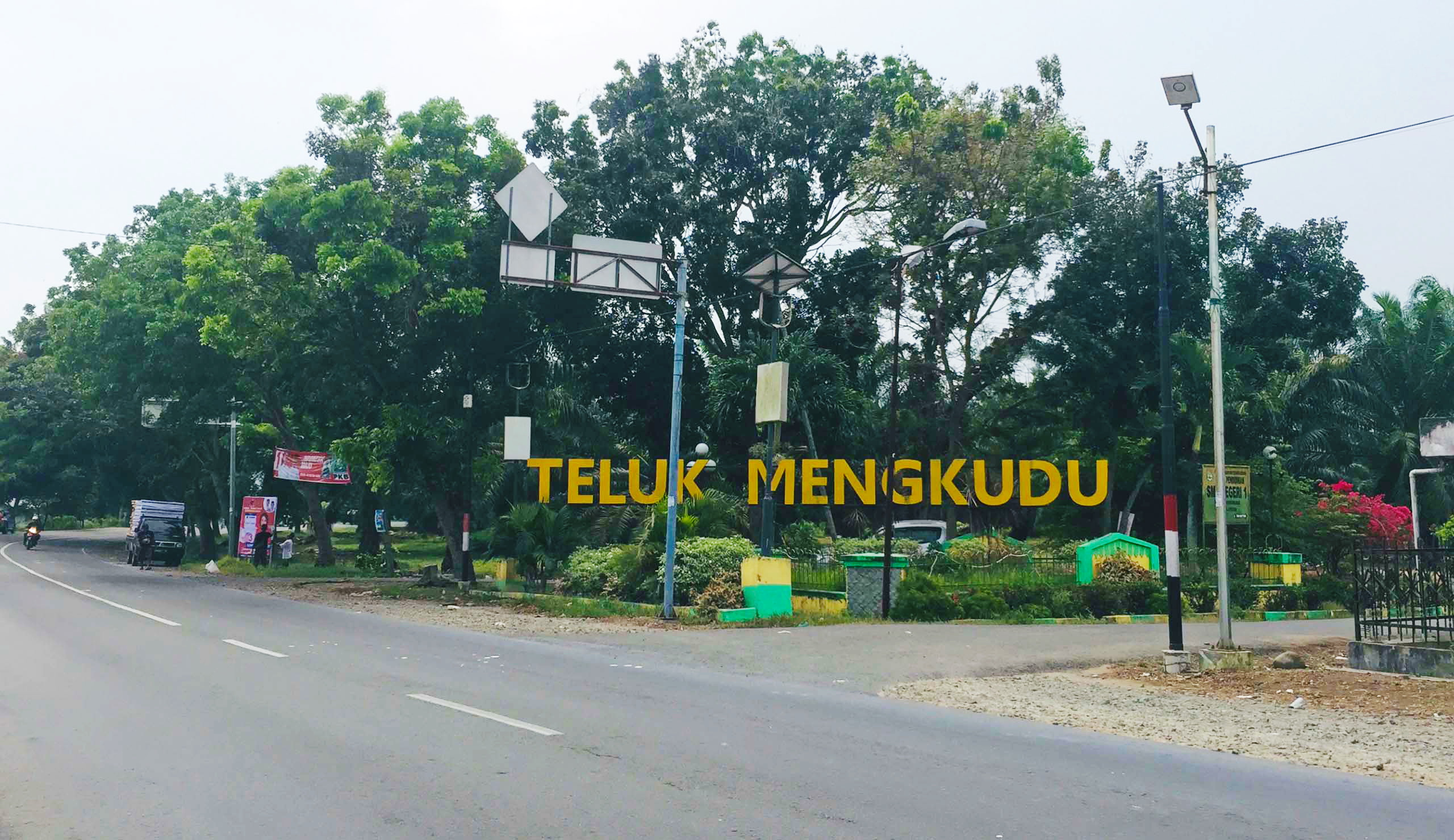 Welcome gate to Teluk Mengkudu, Serdang Bedagai